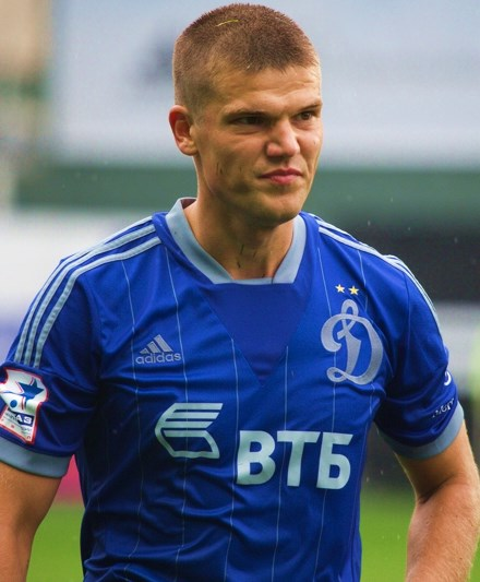 Igor Denisov Dinamo